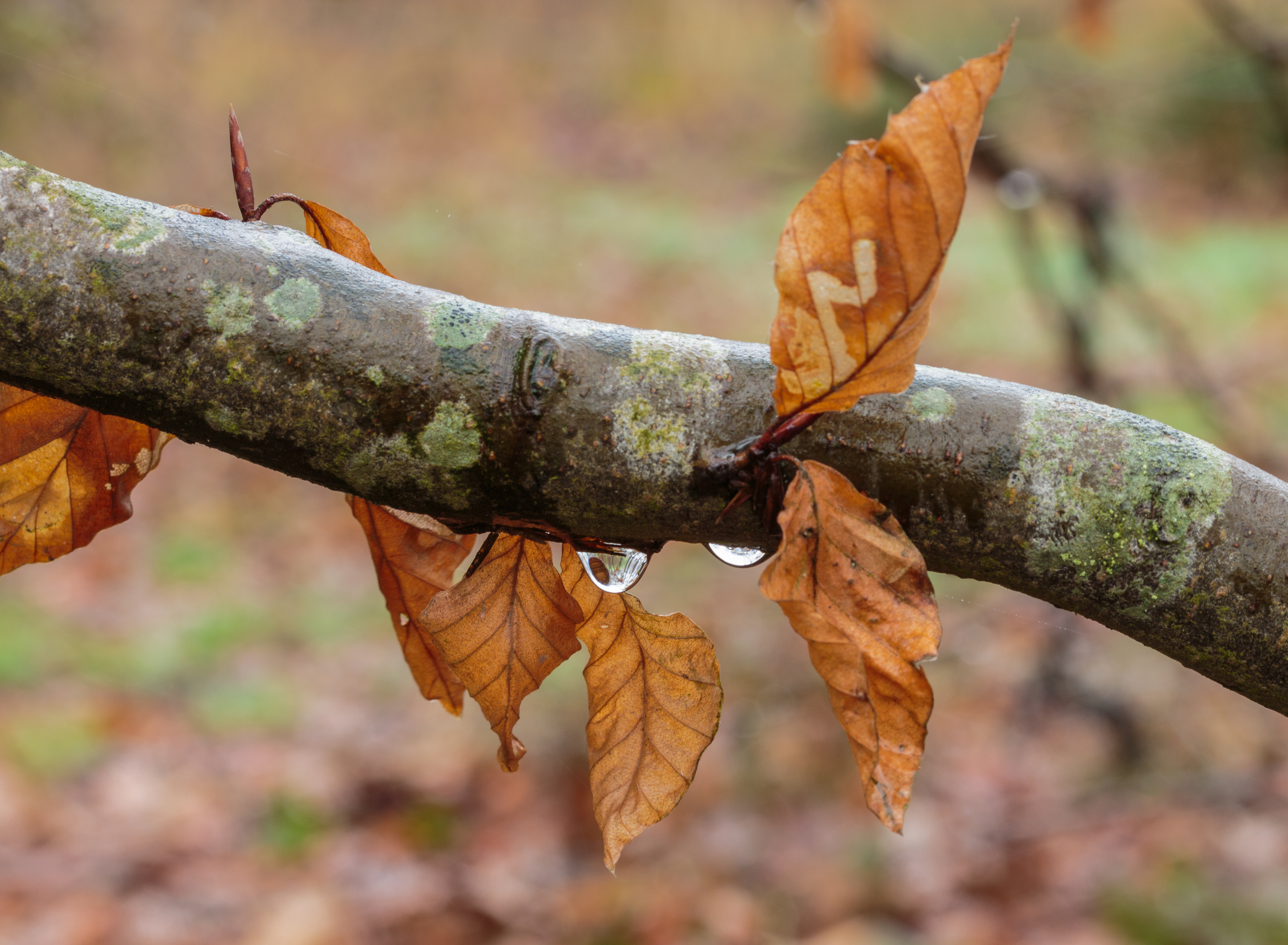 Withered leaf of beech (Fagus sylvatica) after protracted drizzle in March.